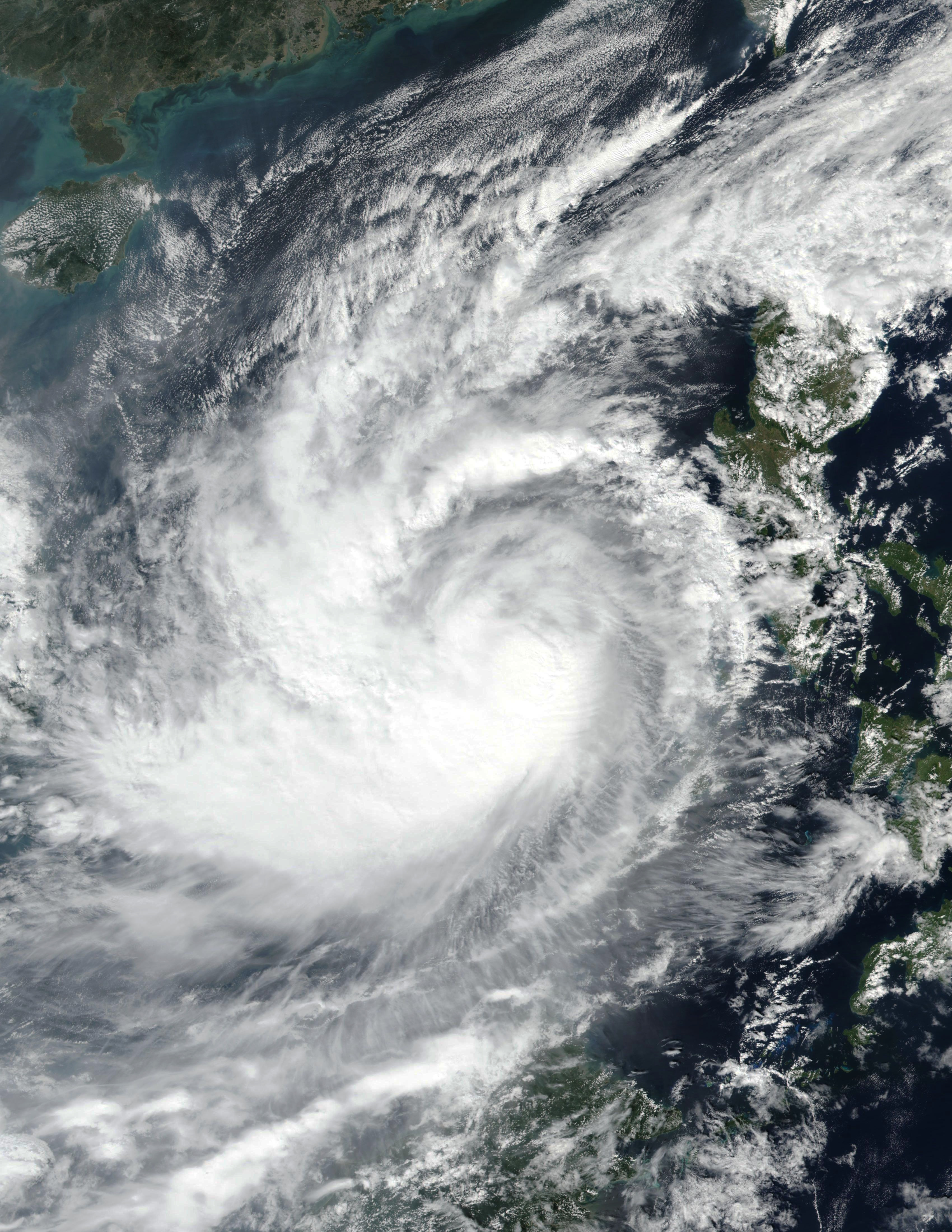 Severe Tropical Storm Nakri on November 8, 2019